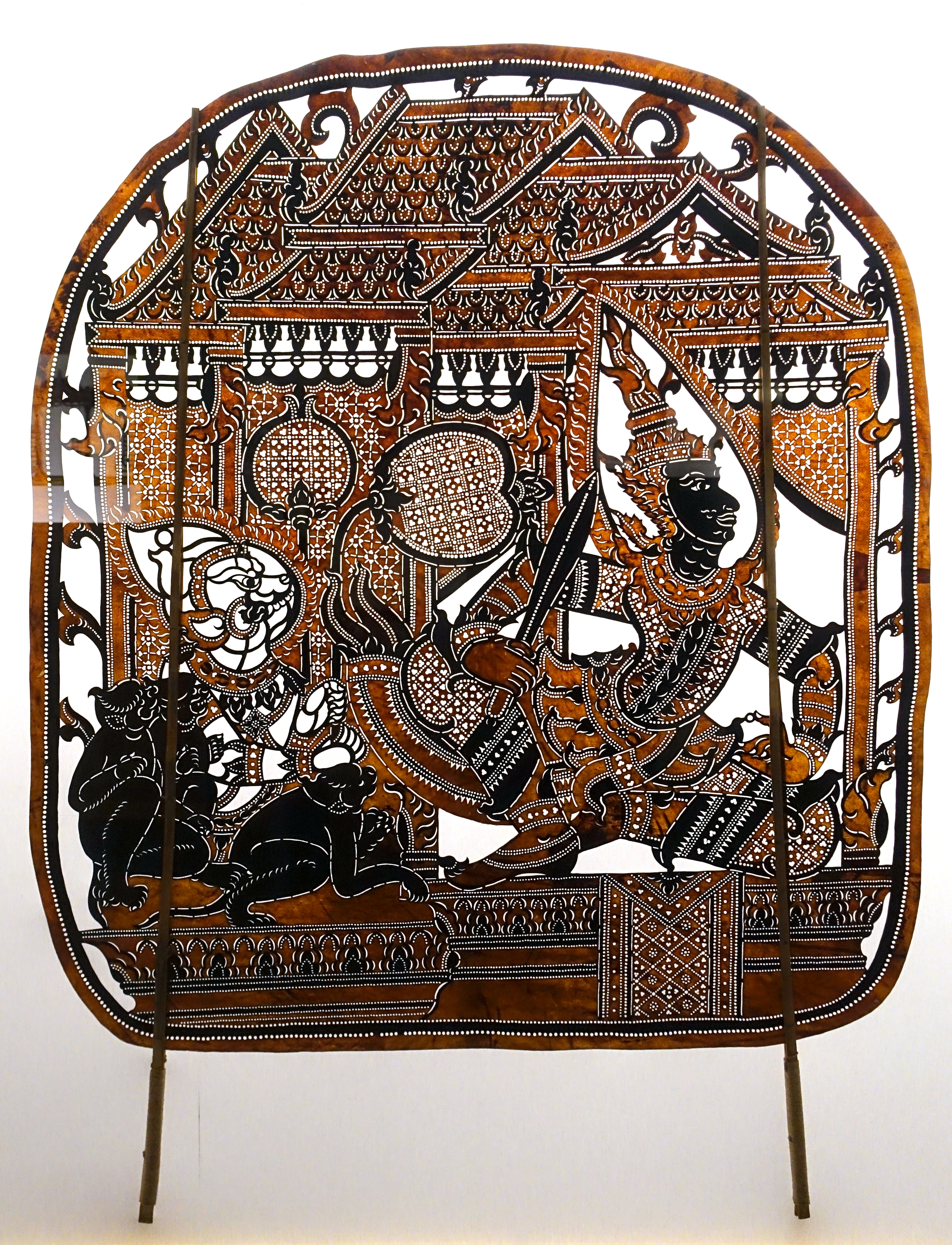 Exhibit in the Museu do Oriente - Lisbon, Portugal. This work is old enough so that it is in the public domain.